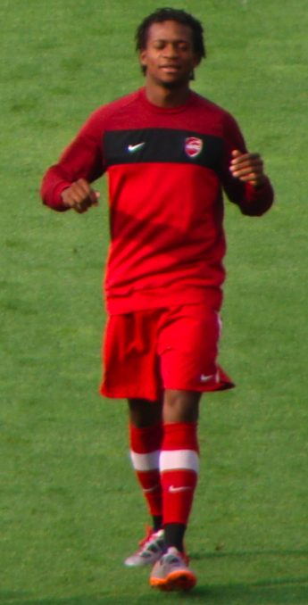 Gaëtan Bong (Valenciennes)